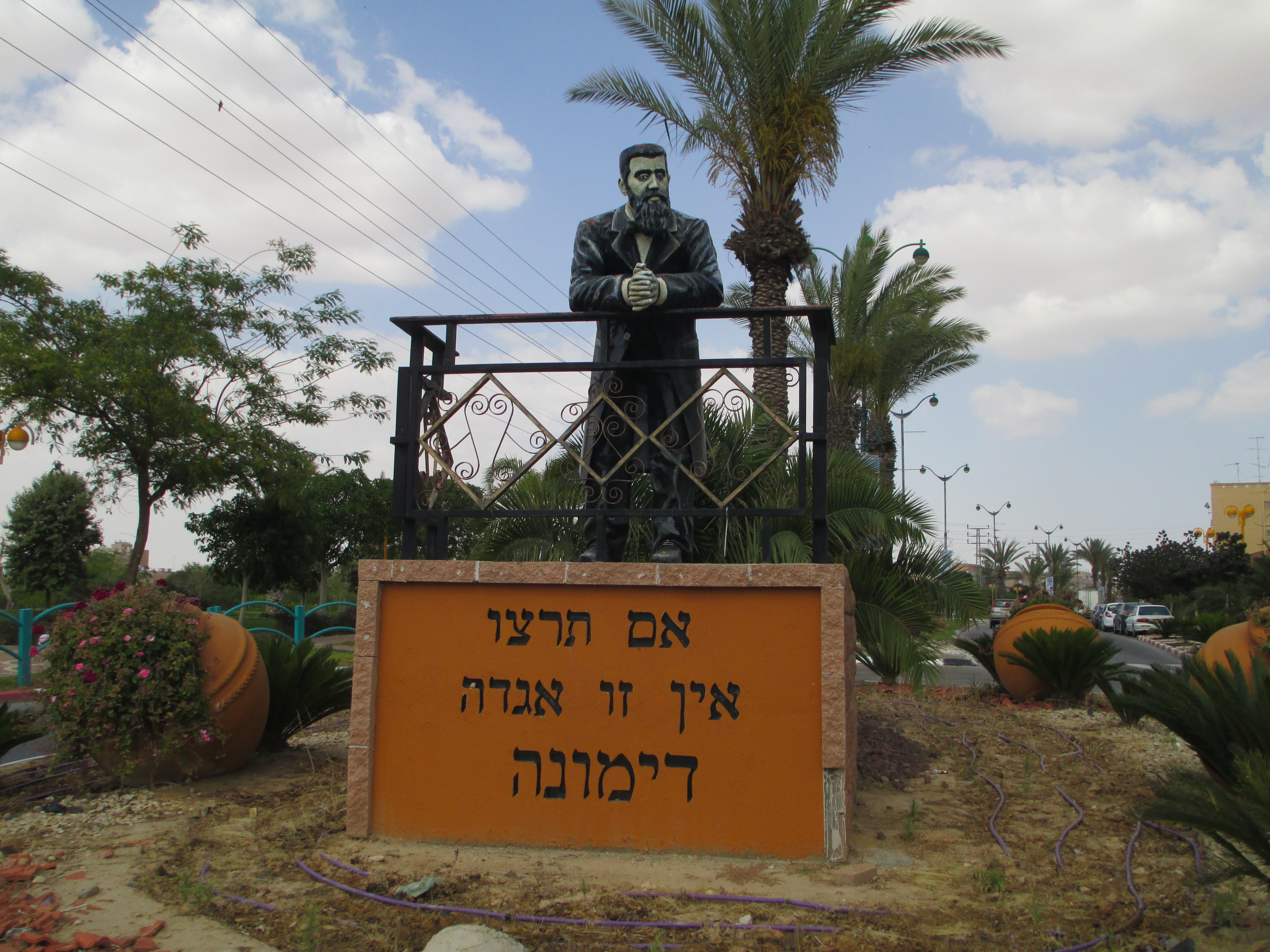 Herzl statue in Dimona, Israel